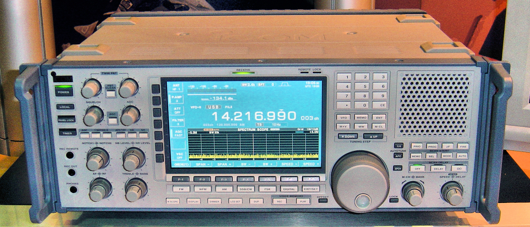 Icom RC-9500 receiver photographed at Leicester amateur radio show, UK, 2006